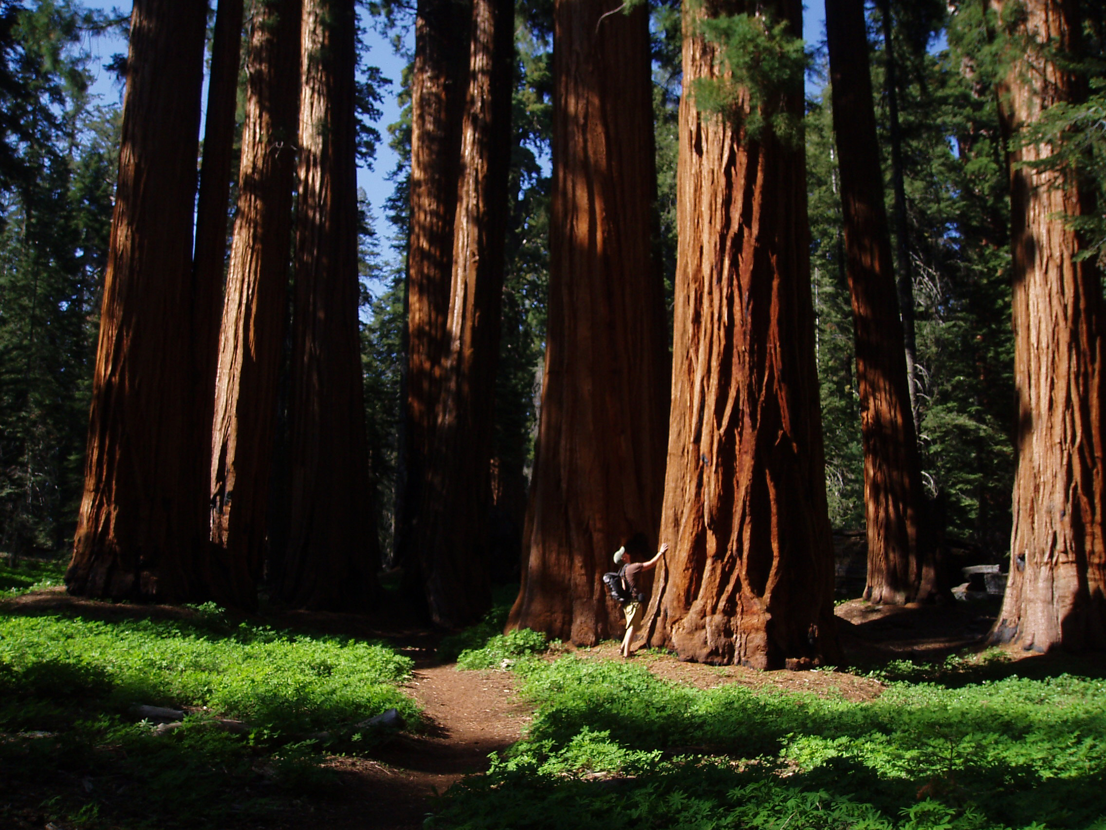 Walking through a random grove in Giant Sequoia National Park